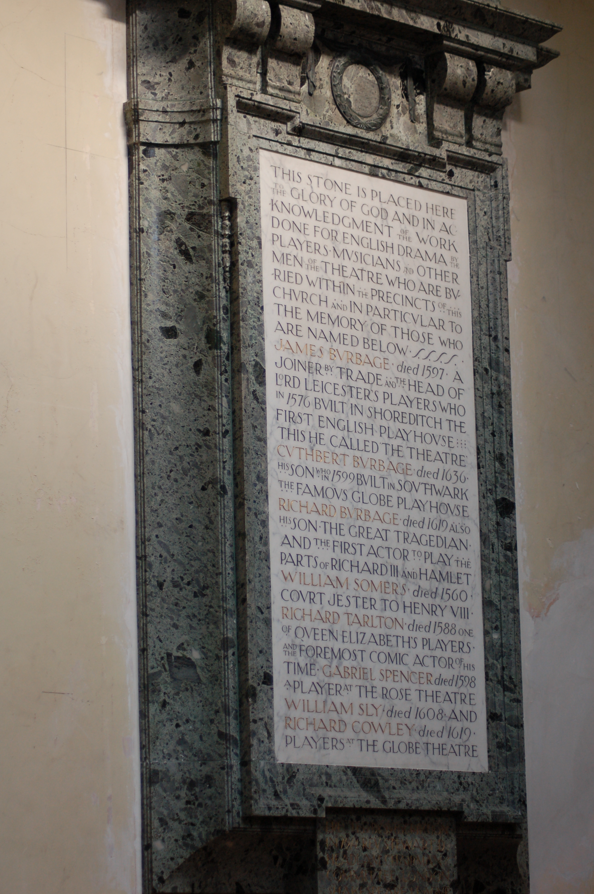 Tudor actors' memorial, located in St Leonards, Shoreditch I dunnit, please attribute Kevin Thompson